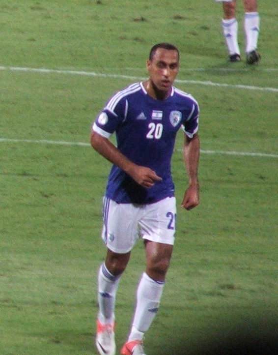 Israel vs.Russia 09.11.2012